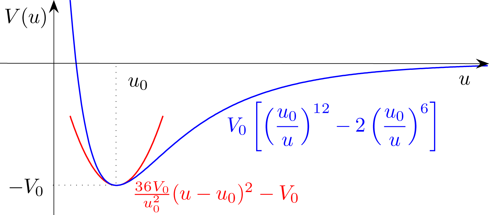 parabolic approximation in the minimum of a Lennard-Jones (12,6) potential